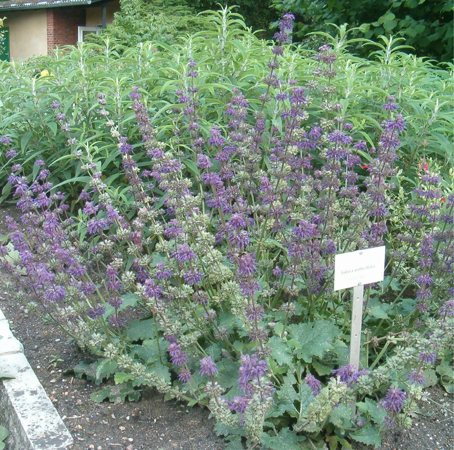 At Botanical Gardens Berlin-Dahlem Species Salvia verticillata Cultivar 'Purple Rain'